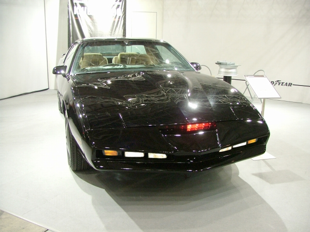 KNIGHT2000 Universal Studios offical replica